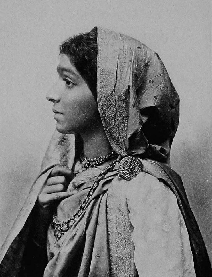 Image of Sarojini Naidu